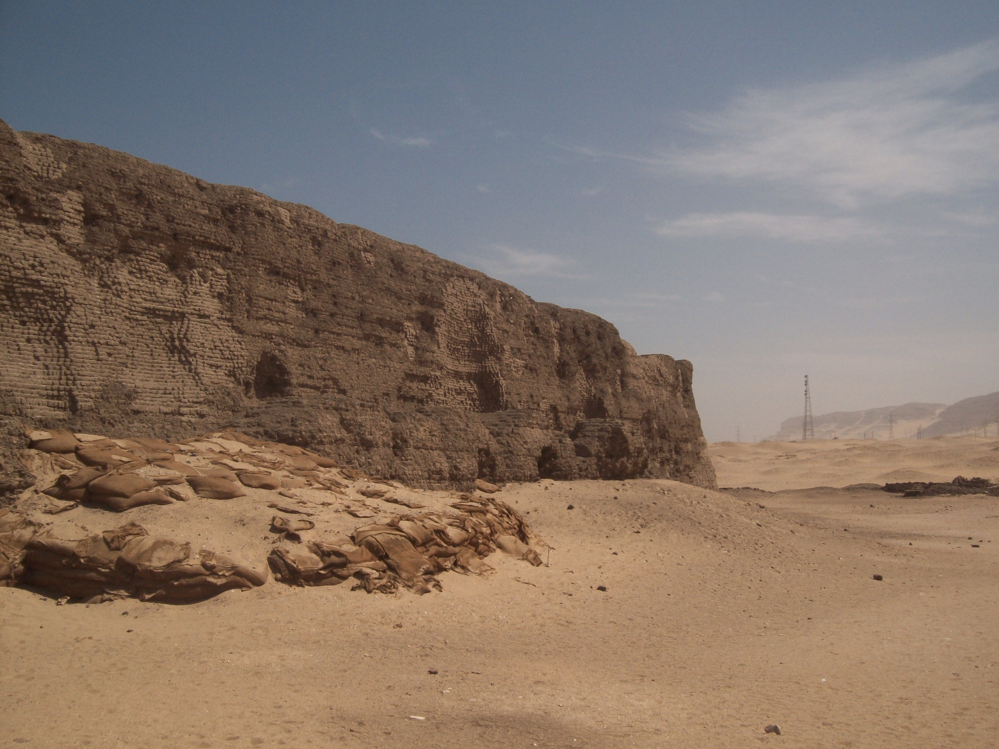 Abydos /əˈbaɪdɒs/ is one of the oldest cities of ancient Egypt, and also of the eighth nome in Upper Egypt, of which it was the capital city. It is located about 11 kilometres (6.8 miles) west of the Nile at latitude 26° 10' N, near the modern Egyptian towns of el-'Araba el Madfuna and al-Balyana. The city was called Abdju in the ancient Egyptian language (ꜣbdw or AbDw as technically transcribed from hieroglyphs) meaning "the hill of the symbol or reliquary", a reference to a reliquary in which the sacred head of Osiris was preserved.